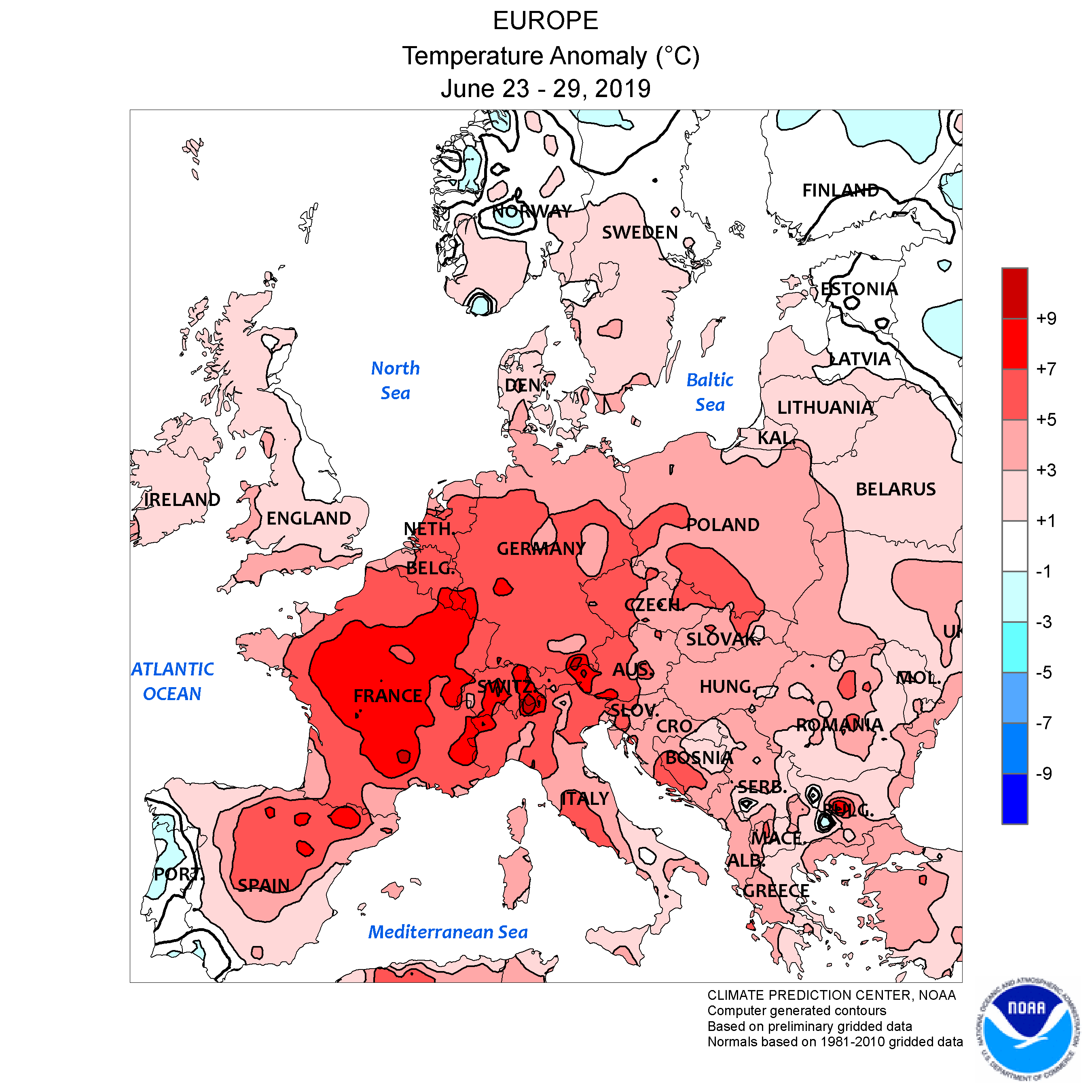 Europe: Temperature anomaly June 23 - 29 2019, computer generated contours, based on preliminary data; First 2019 European heat wave.